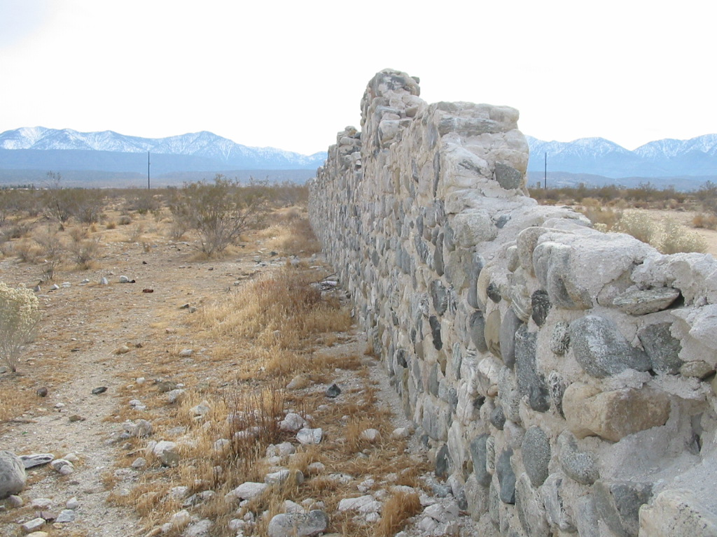 Photograph of the ruins of Llano Del Rio, California